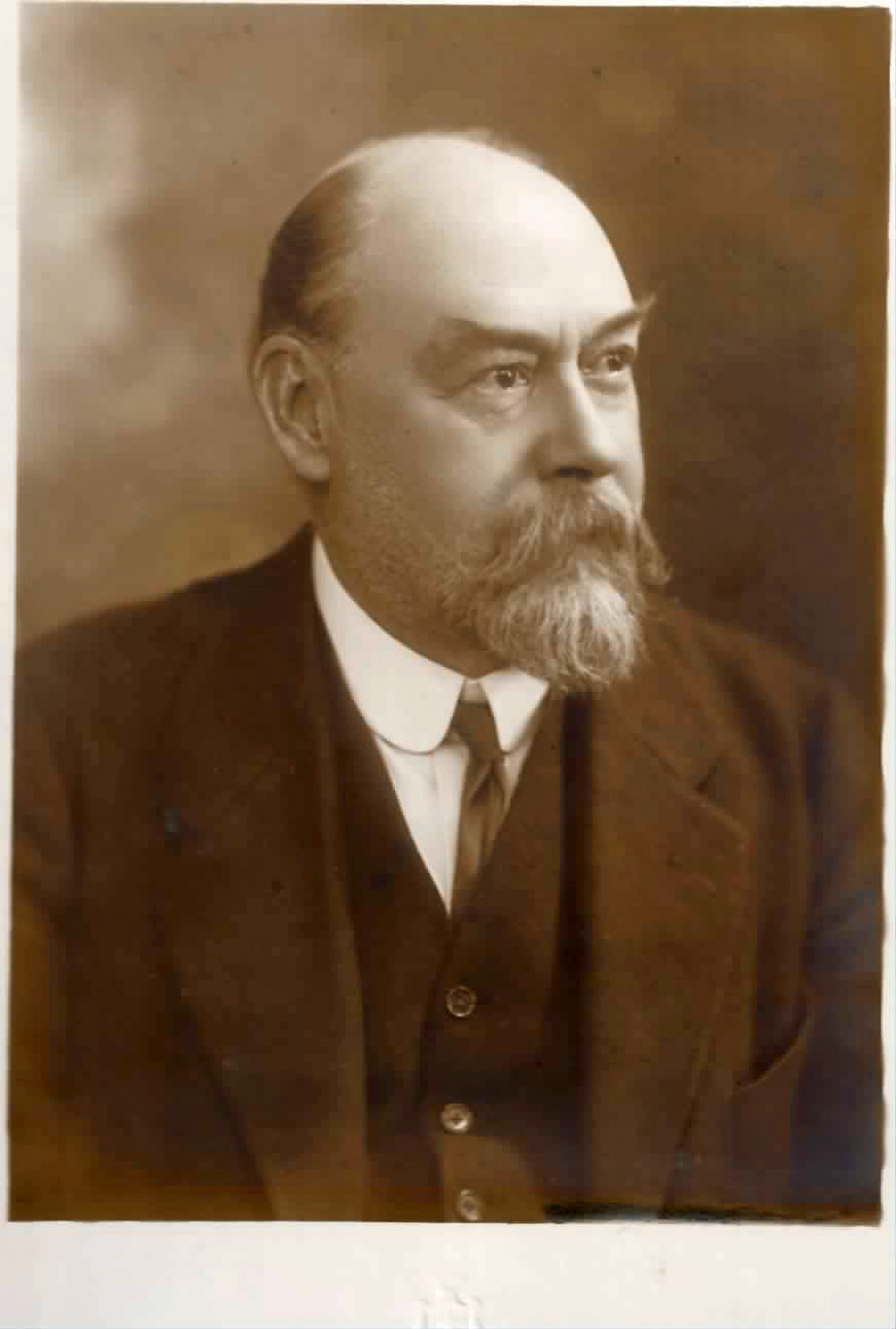 EPSON MFP image